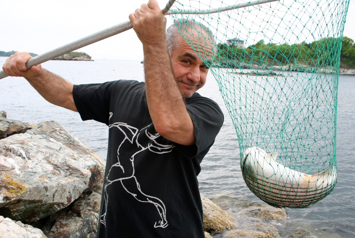 Mark Stolzenberg, American mime and actor, with a fish